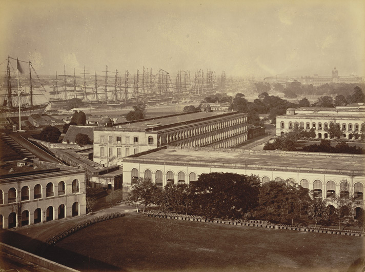 Photograph, from an album of 62 views of India and Ceylon. It was reproduced in Montague Massey, 'Recollections of Calcutta for Over Half a Century' (Calcutta, 1918), and there credited to Johnston & Hoffmann. View from inside Fort William, looking across the buildings of the fort towards shipping moored on the Hooghly. The High Court can be seen on the skyline in the right background. Fort William was initially built in 1707 and in 1742 a defensive moat was dug to fortify it against threat of attack by the Marathas. In 1757 when Robert Clive retook Calcutta from the forces of Siraj-ud-Daulah, the Nawab of Bengal, a new Fort William was conceived and constructed within ten years. In the process, large swathes of jungle were cleared around the fort, an esplanade was created, and in the following decades the levelled ground provided ample space for the erecting of the glittering white colonial structures which impressed Calcutta's visitors and made it look a prosperous imperial city.